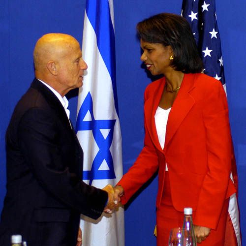 ecretary Rice meeting with Israeli Minister without Portfolio Ami Ayalon at the David Citadel Hotel, Jerusalem, Isreal.